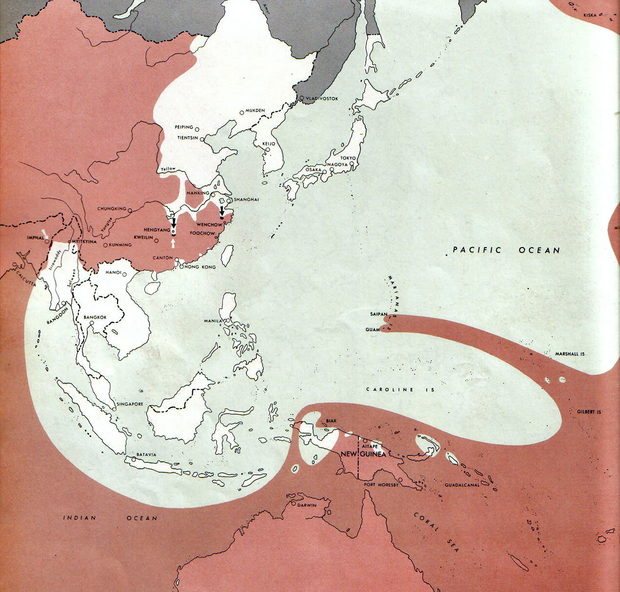 Map of the front against Japan as of 1 Sep 1944: This map is taken from the source "Atlas of the World Battle Fronts in Semimonthly Phases to August 15th 1945: Supplement to The Biennial report of The Chief of Staff of the United States Army July 1, 1943 to June 30 1945 To the Secretary of War". (See Cover, Forward and Map details)